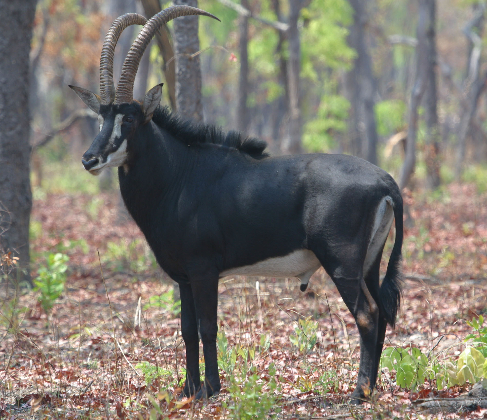 Sable antelope (Bull). Photo taken near Kafue River in Zambia, 2004